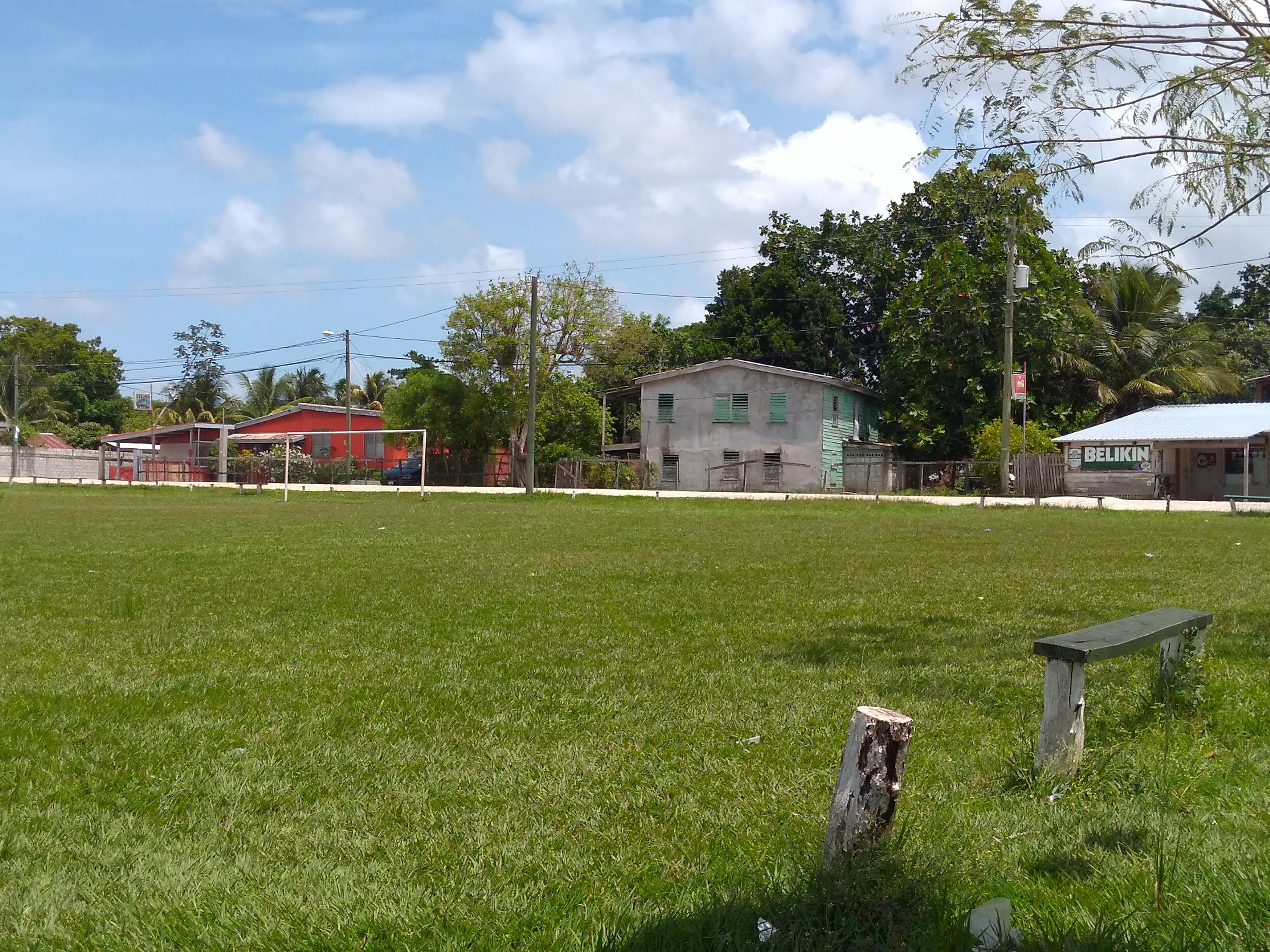 The football field at the Carmelita sports center. Photo: @j10lam